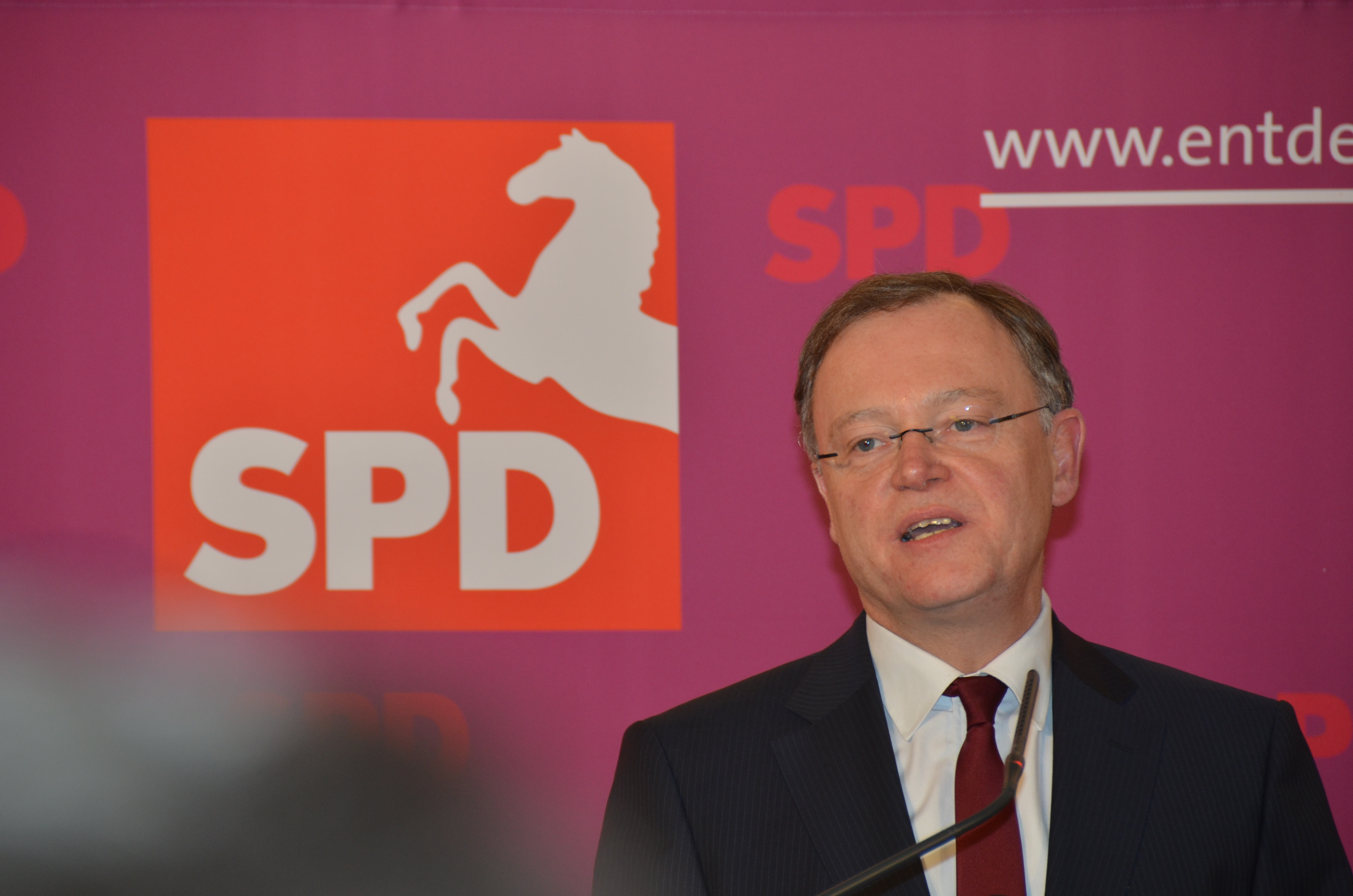 Wikipedia im Landtag – Niedersachsen 20. Januar 2013 in Hannover am WahlabendDieses Bild entstand während der Landtagswahl in Niedersachsen 2013 im Landtag Hannover. This work is free and may be used by anyone for any purpose. If you wish to use this content, you do not need to request permission as long as you follow any licensing requirements mentioned on this page.